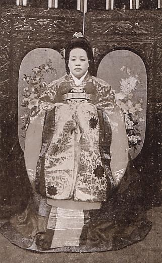 Princess Consort Sunheon